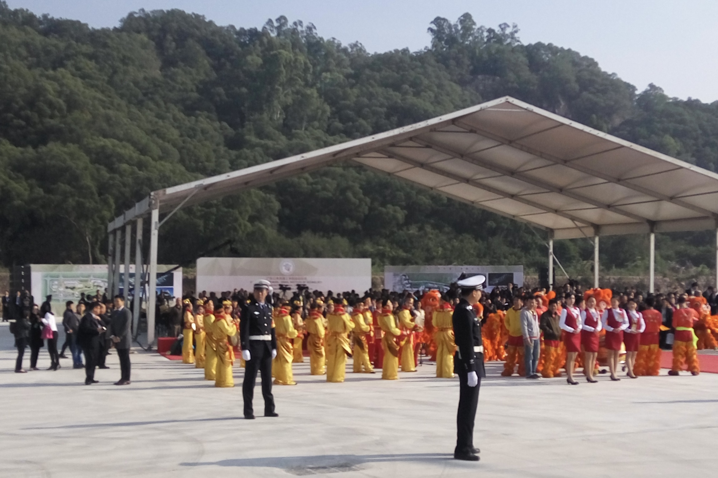 The cornerstone laying ceremony of GTIIT, Guangdong Technion-Israel Institute of Technology (cropped)